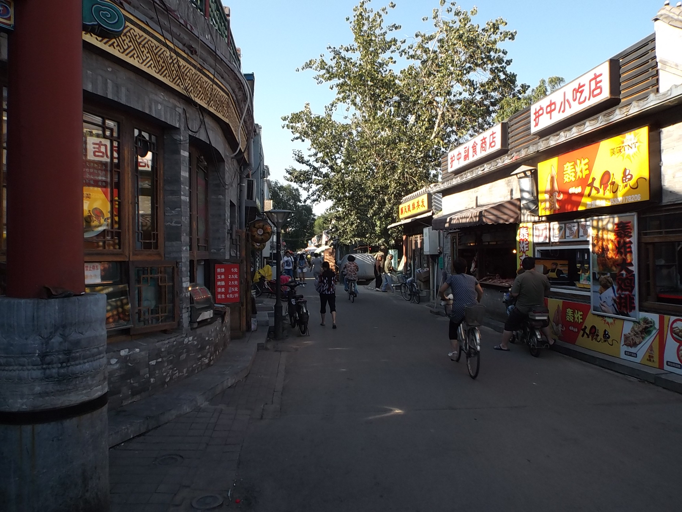 Ouya Hutong - Beijing, 4.9.2014